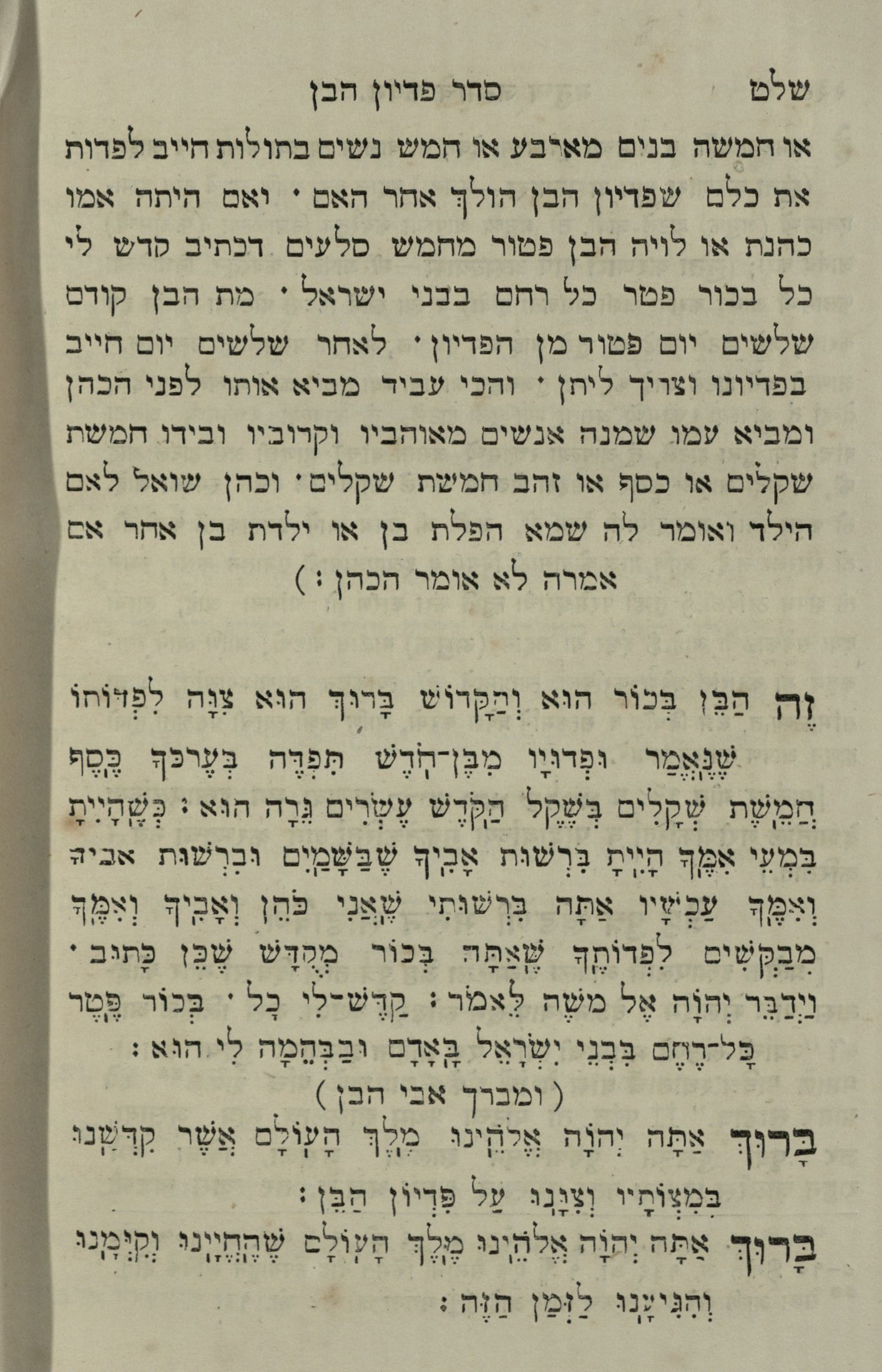 Jewish Prayer Book (Siddur) in Hebrew and Marathi , translated from Hebrew to Marathi in 1889 by Rajpurkar, Joseph Ezekiel